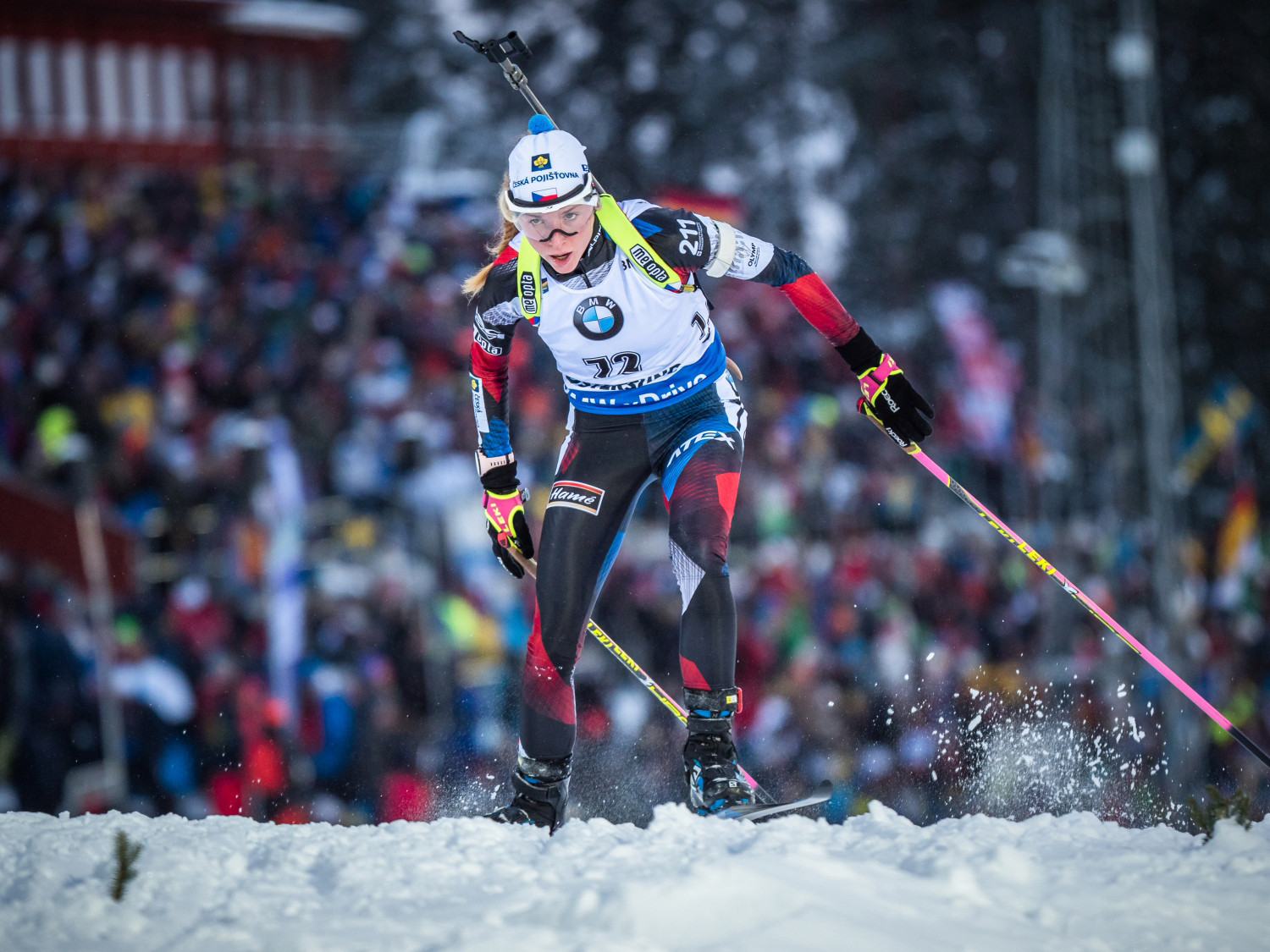 Czech biathlete Markéta Davidová in 2019.